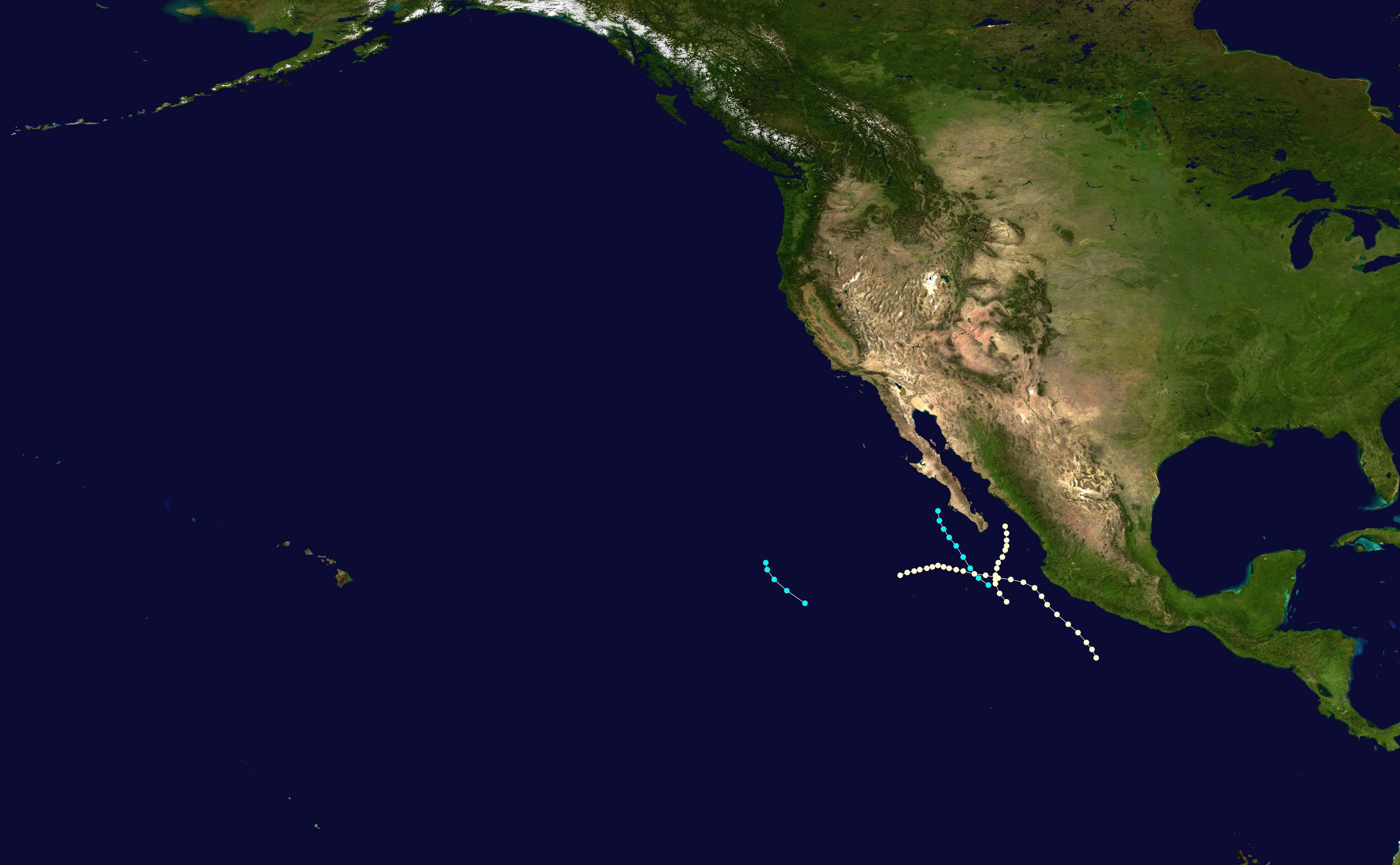 This map shows the tracks of all tropical cyclones in the 1953 Pacific hurricane season. The points show the location of each storm at 6-hour intervals. The colour represents the storm's maximum sustained wind speeds as classified in the Saffir-Simpson Hurricane Scale (see below), and the shape of the data points represent the type of the storm. Saffir–Simpson hurricane wind scale Tropical depression≤38 mph≤62 km/h Category 3111–129 mph178–208 km/h Tropical storm39–73 mph63–118 km/h Category 4130–156 mph209–251 km/h Category 174–95 mph119–153 km/h Category 5≥157 mph≥252 km/h Category 296–110 mph154–177 km/h Unknown Storm typeTropical cycloneSubtropical cycloneExtratropical cyclone / Remnant low / Tropical disturbance